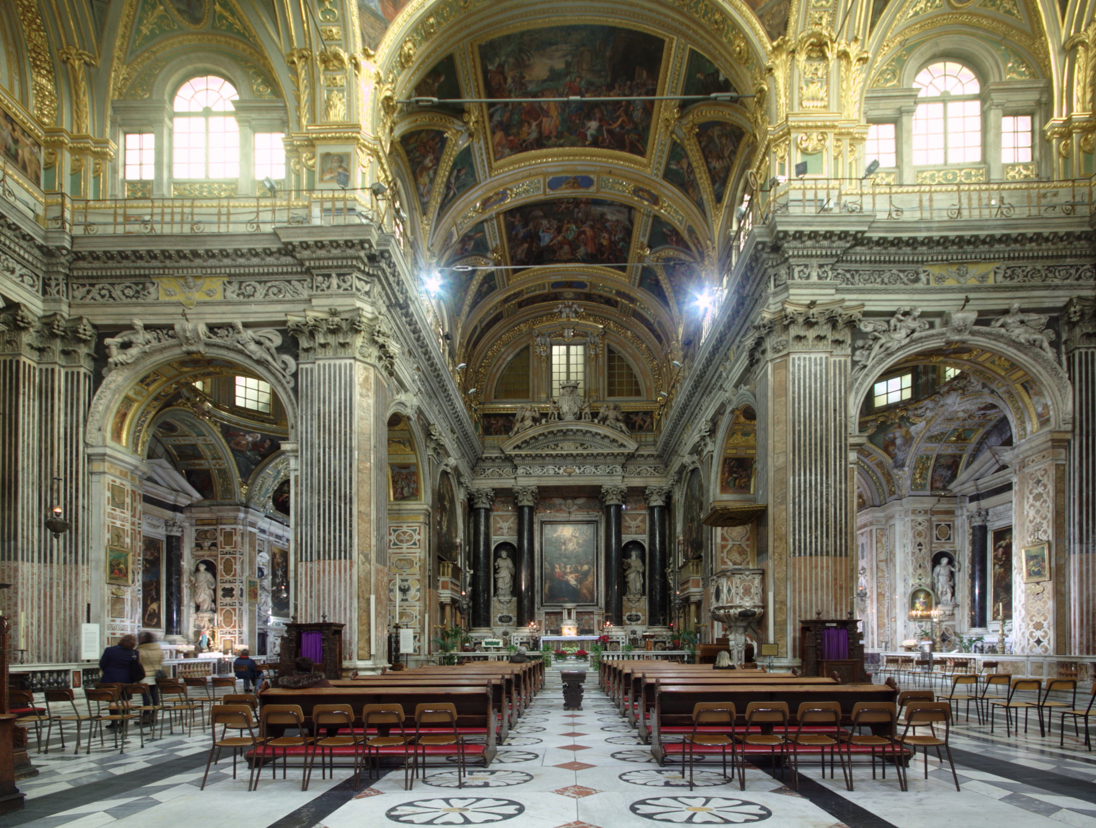 Chiesa del Gesù e dei Santi Ambrogio e Andrea